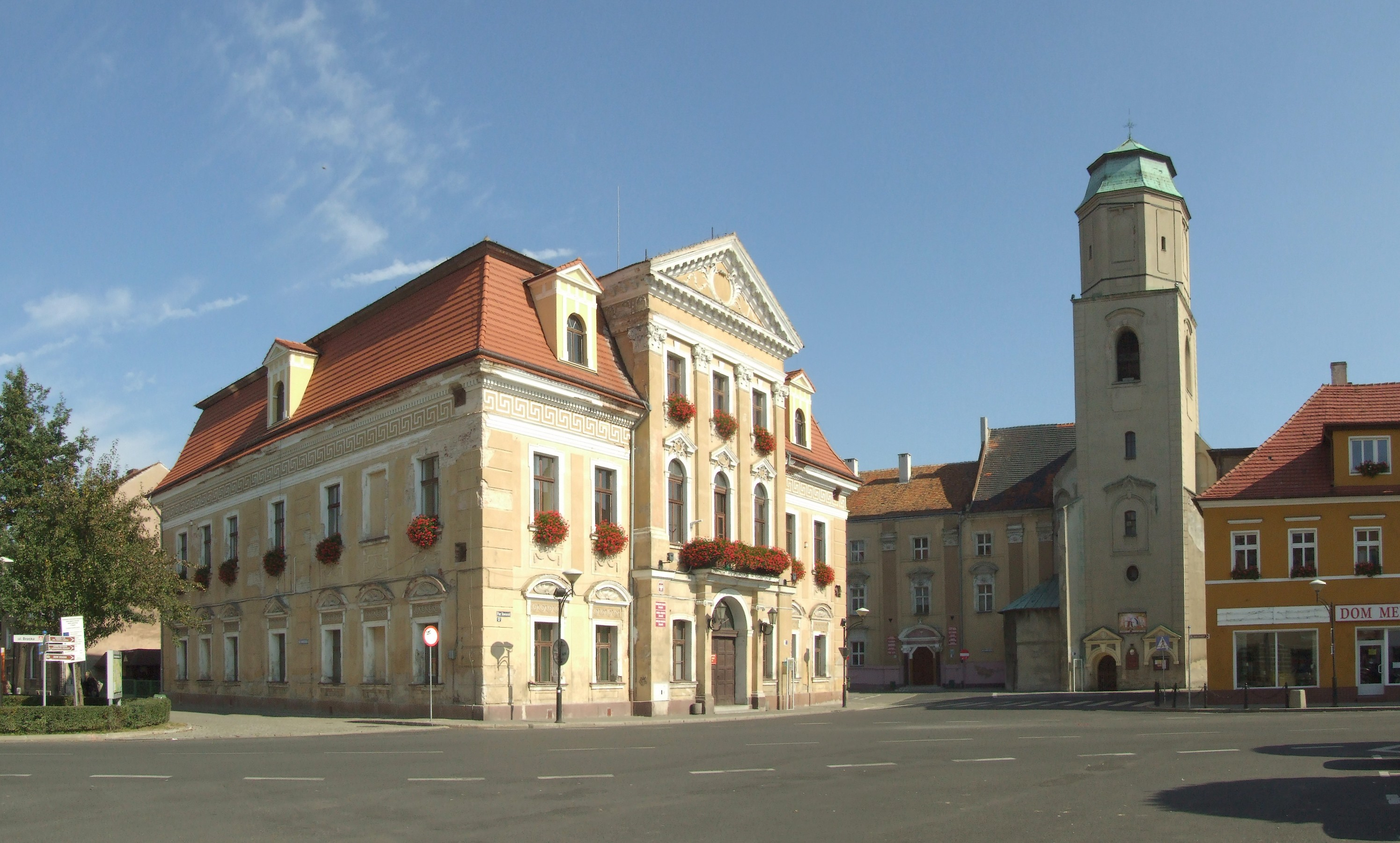 Plac Słowiański in Żagań. Formerly the New Market. North-east corner